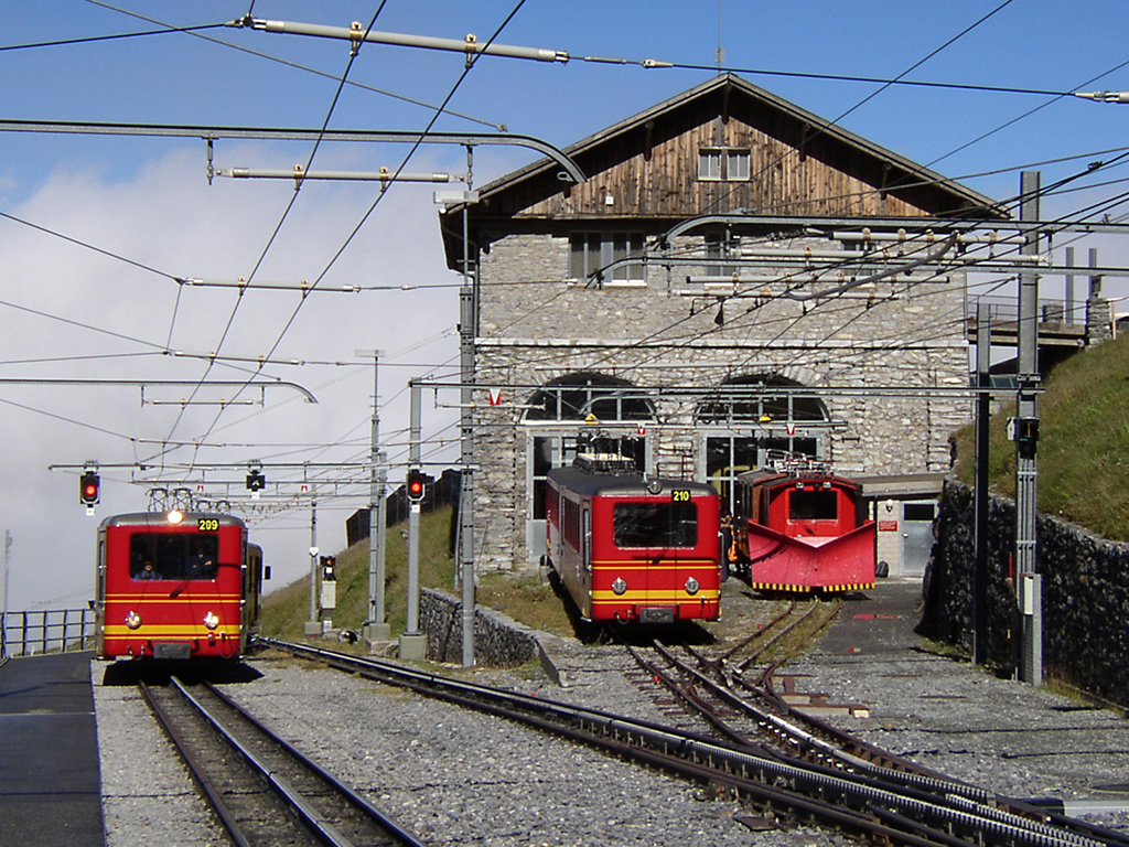 Workshop of the Jungfrau-Railway at the Eigerglacier station with two compositions from the first generation of railcars and the historic snowplow.